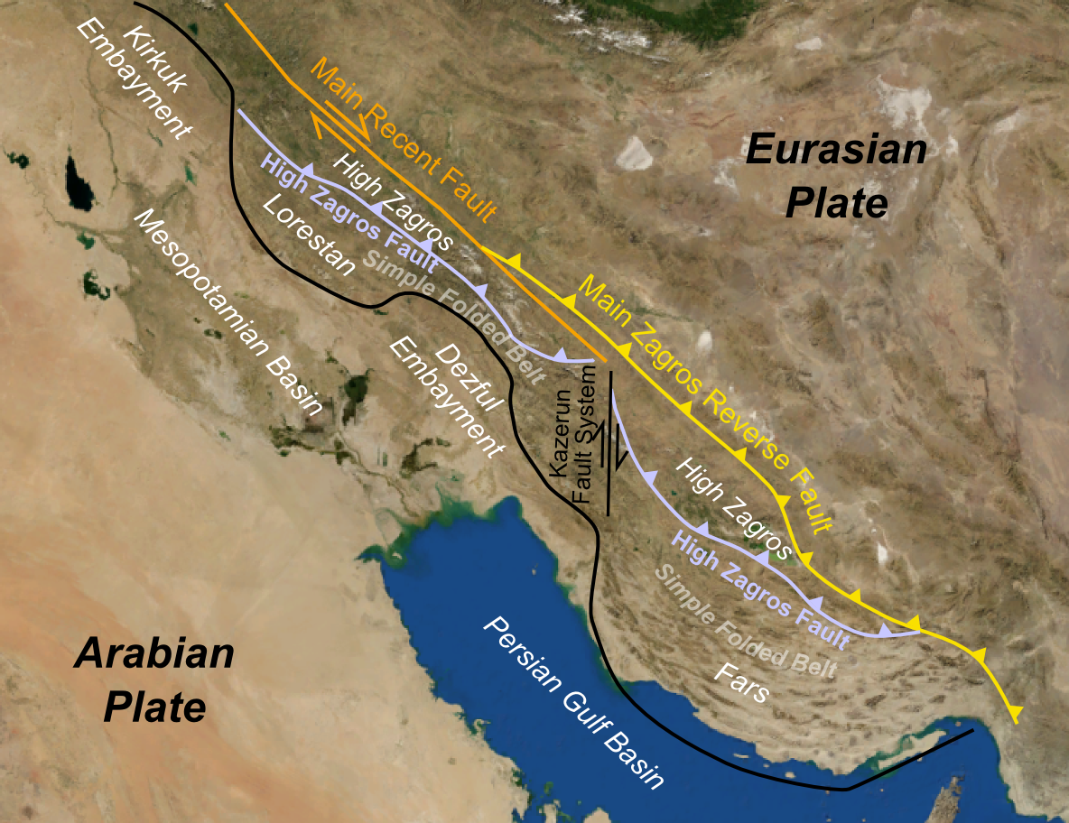 Screenshot from NASA World Wind software of the Zagros Mountains annotated with main structures of the fold and thrust belt